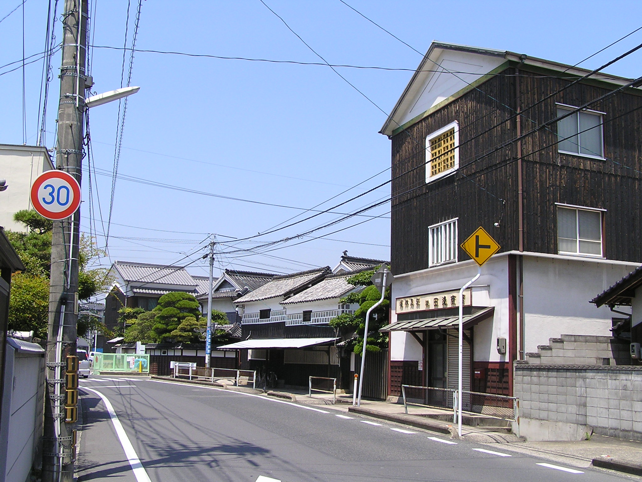 Town in Nagao-cho